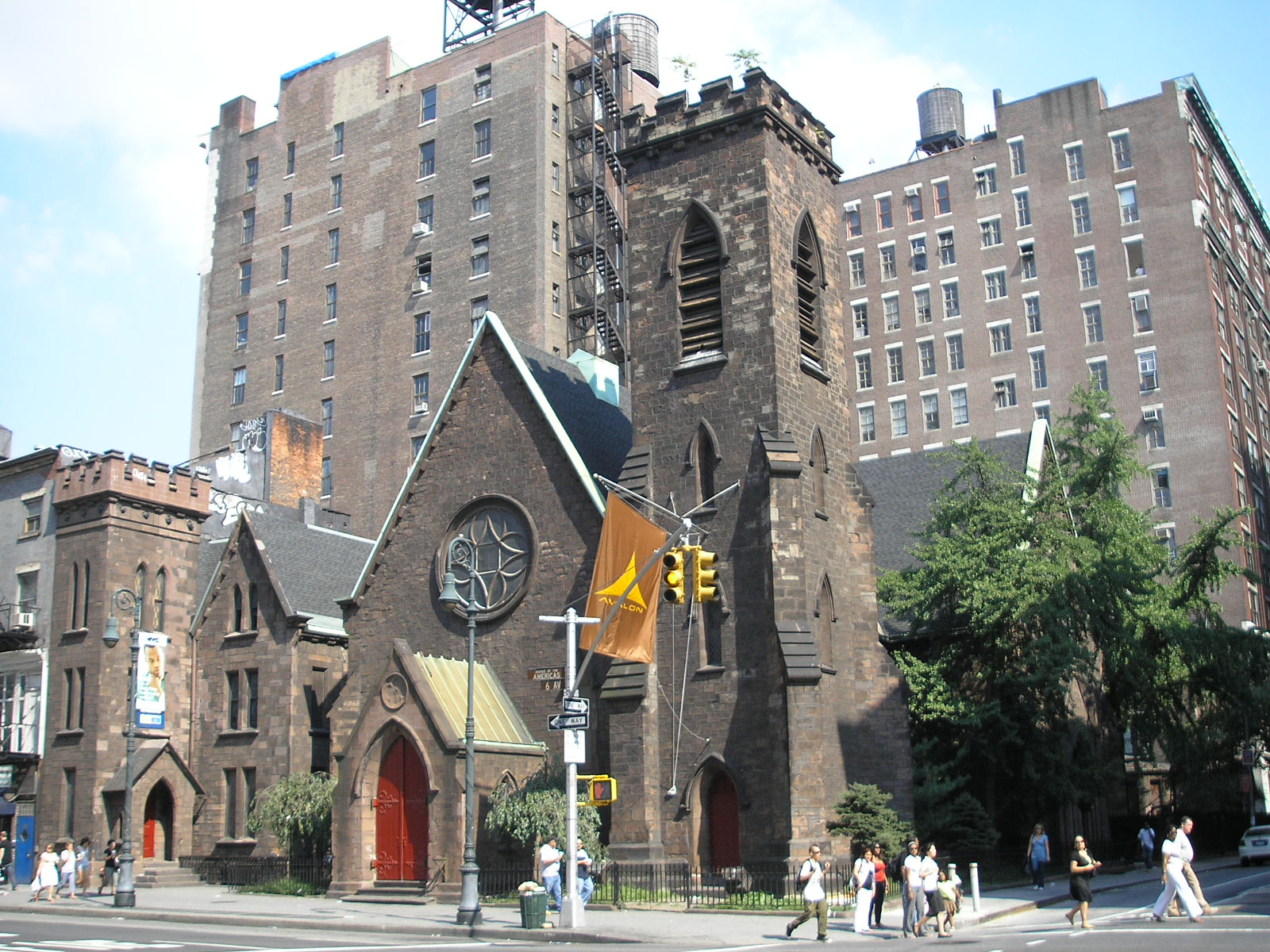 Avalon nightclub, 662 6th Ave at 20th Street, located in a former church.